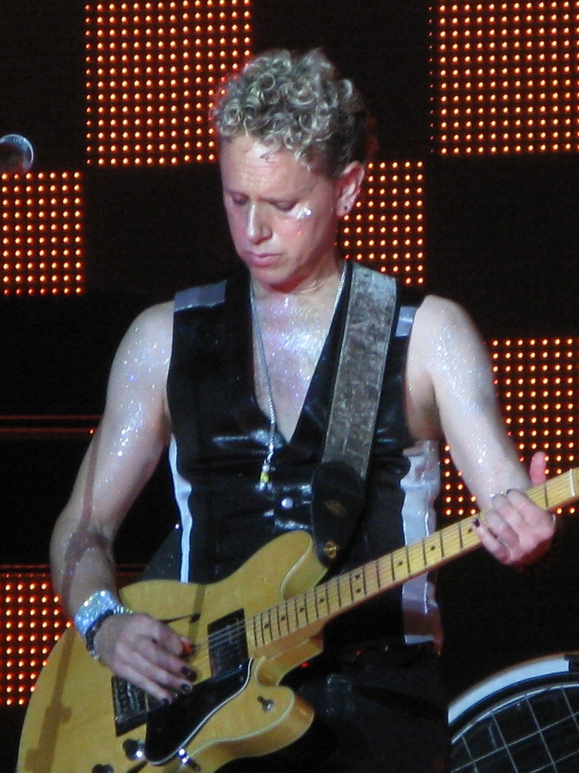 Martin L. Gore performing with Depeche Mode in December 2009